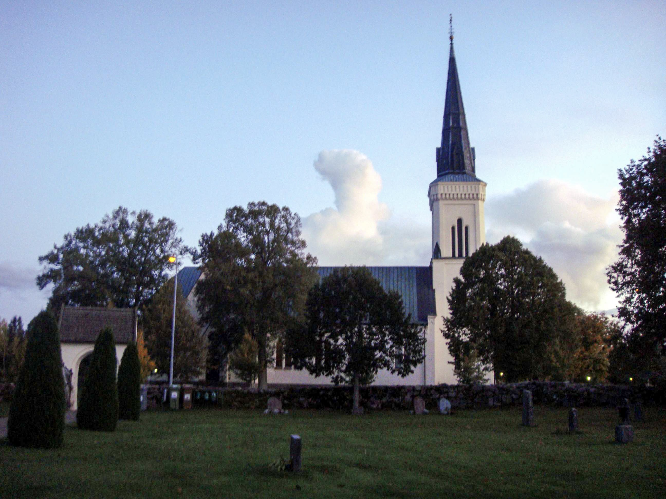 The new church in Vånga, Östergötland, Sweden.